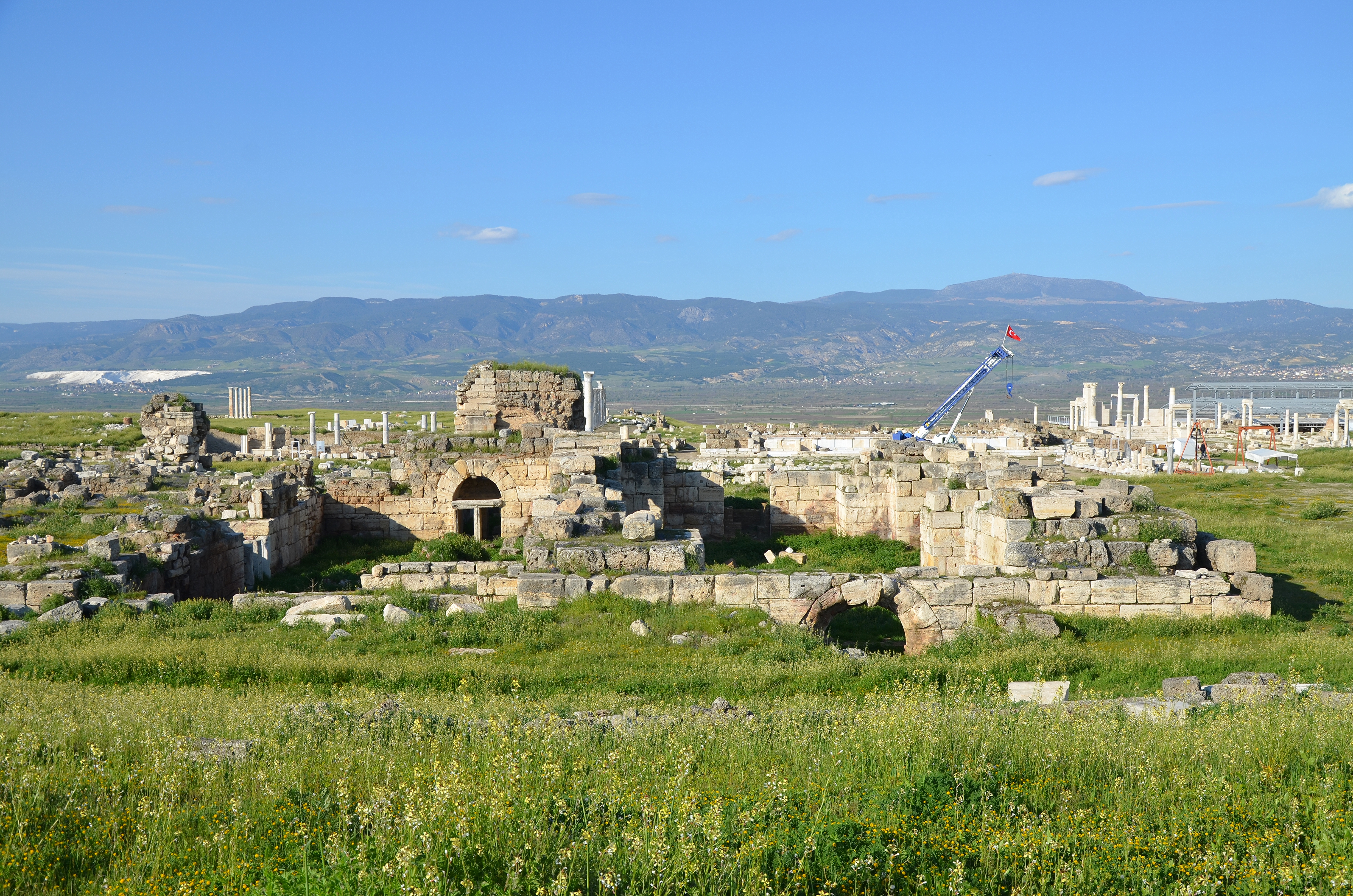 The Central Bath Complex, Laodicea on the Lycus, Phrygia, Turkey